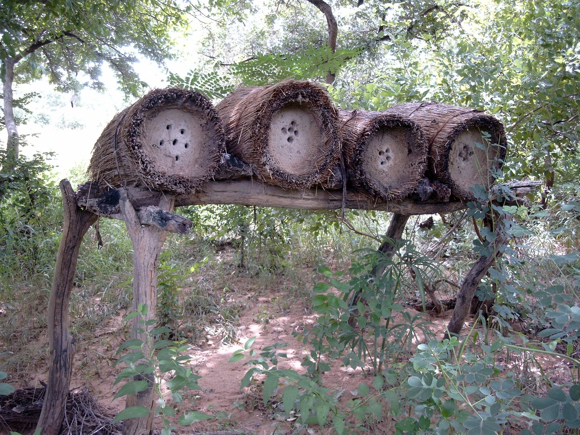 Bee hives in Fada N'Gourma, Burkina Faso